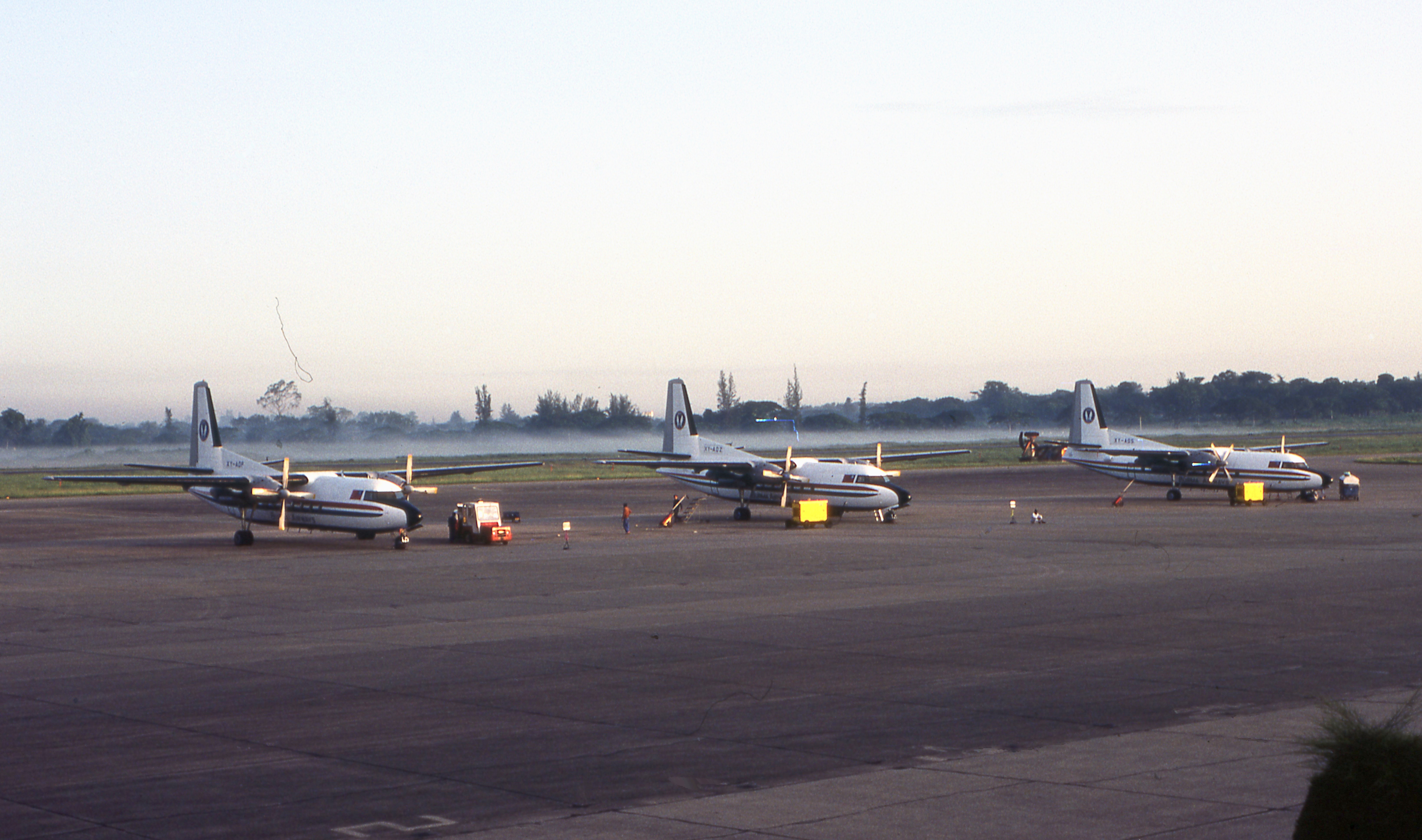 line-up of Burma Airways Fokker F27s at Rangoon Airport